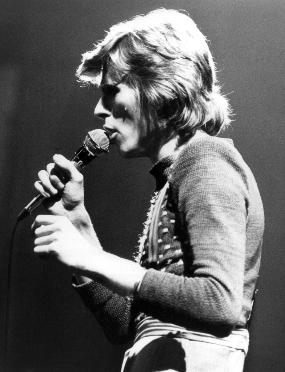 Photo of David Bowie performing on the ABC music program In Concert.